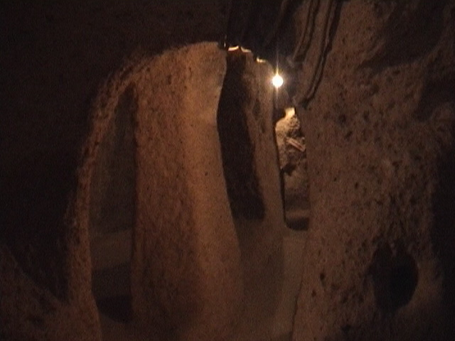 Kaymaklı Underground City in Cappadocia, Turkey